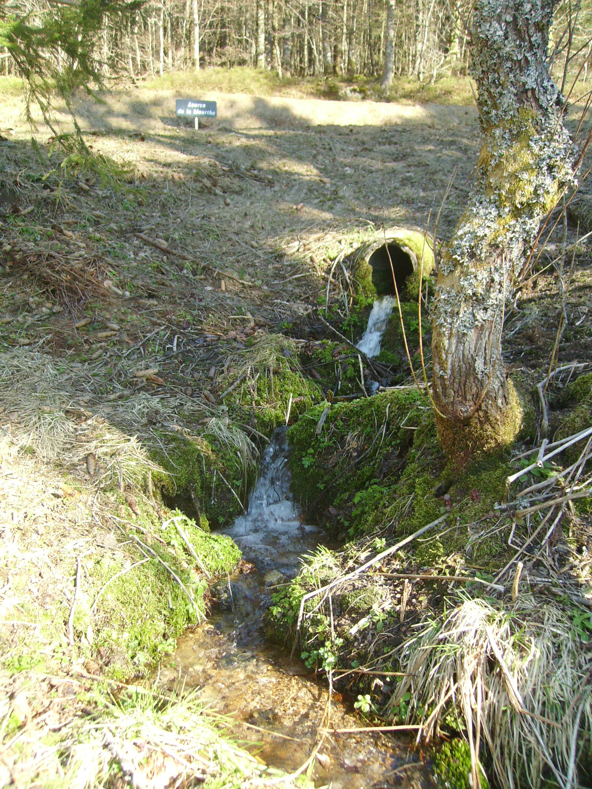 Source de la Meurthe au Montabey